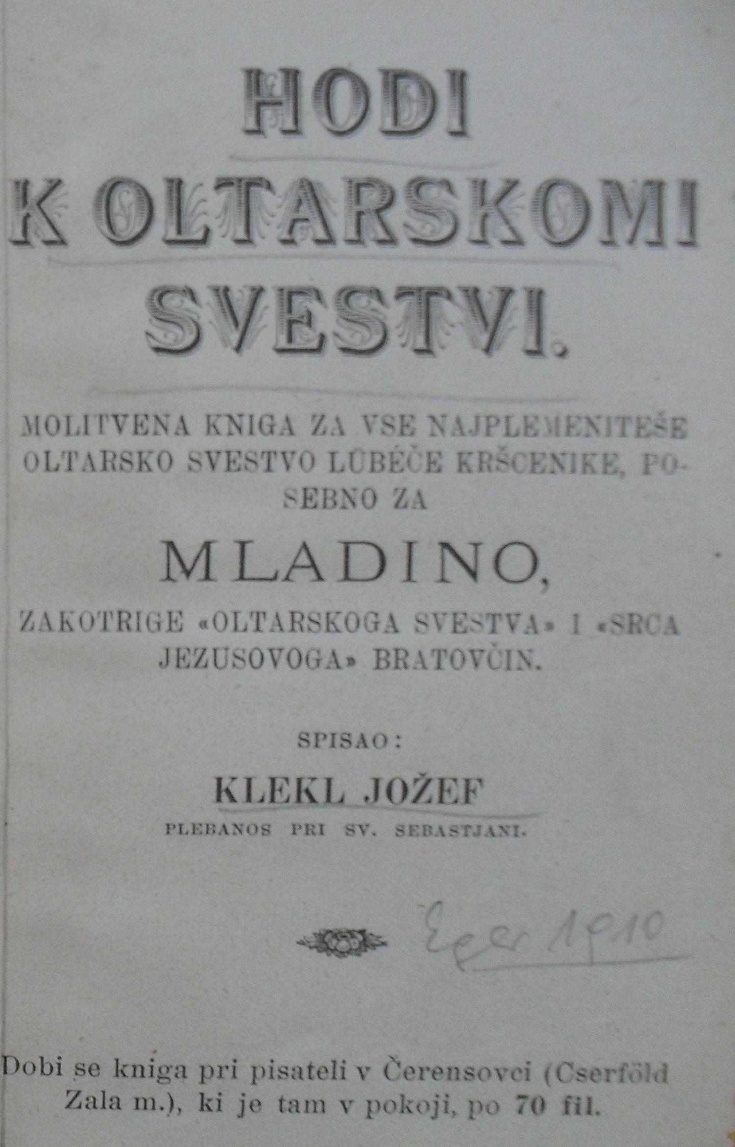 Hodi k oltraskomi svesti (1910), by József Klekl the Old